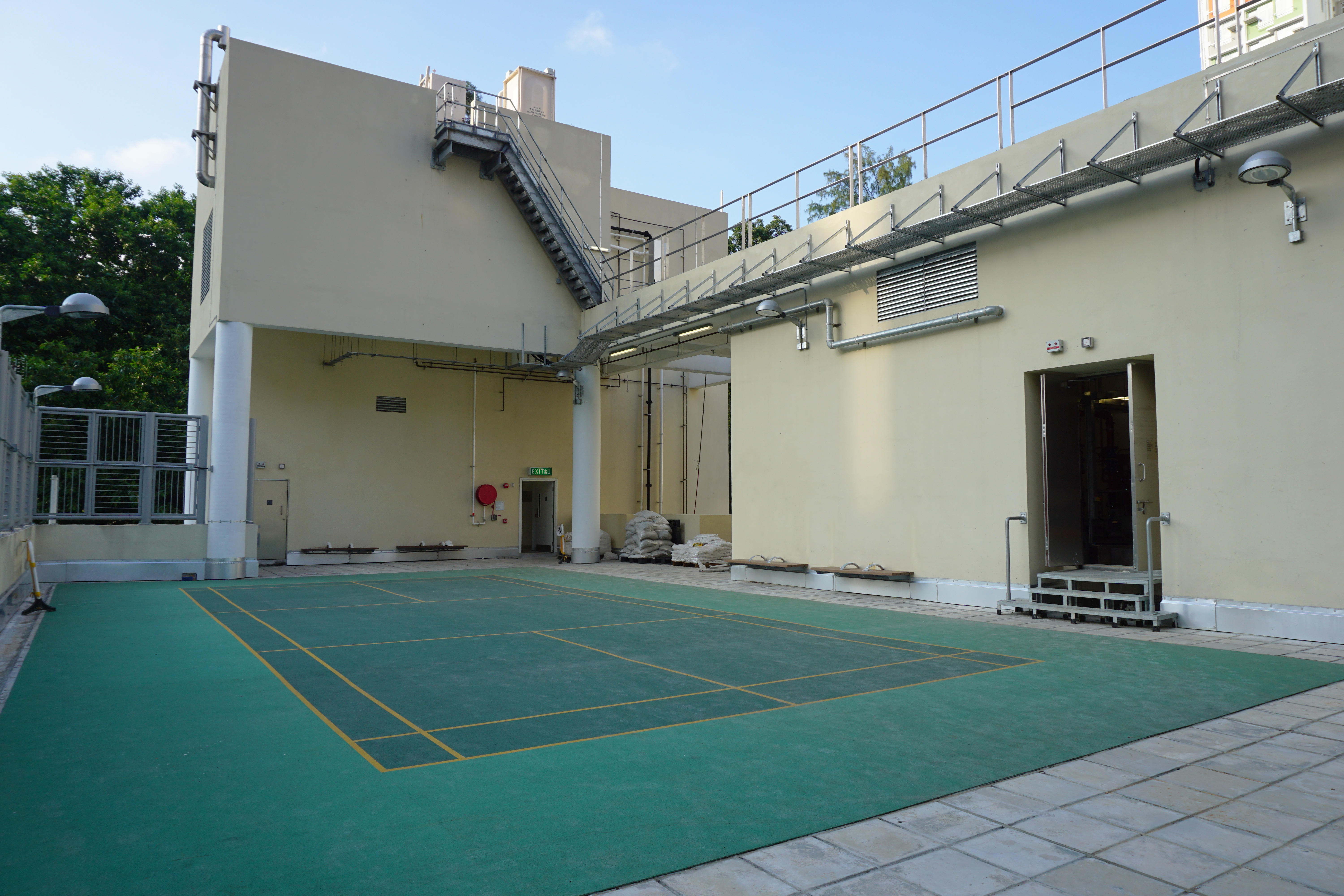 So Uk Estate in Cheung Sha Wan, Hong Kong.